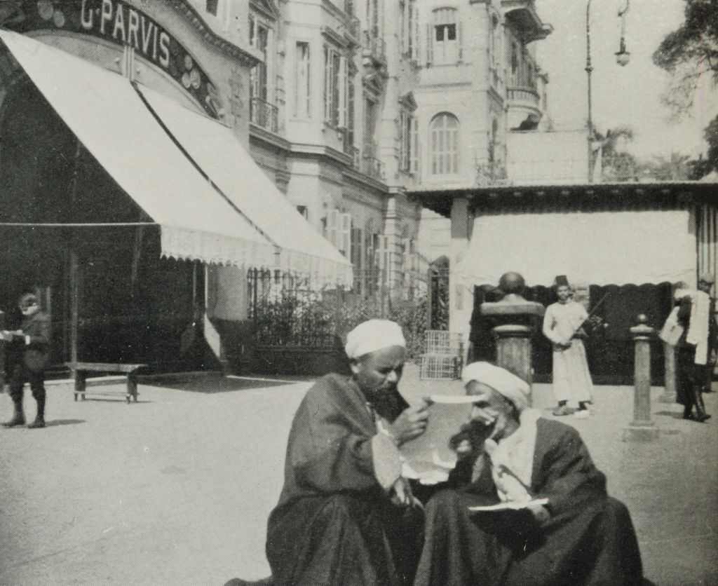 “ARAB SANGFROID.Effendis sitting down the middle of the road to read a letter. In the background on the right is a human mat-shop.”Two men squatting in the street, reading a letter. Black-and-white photograph.